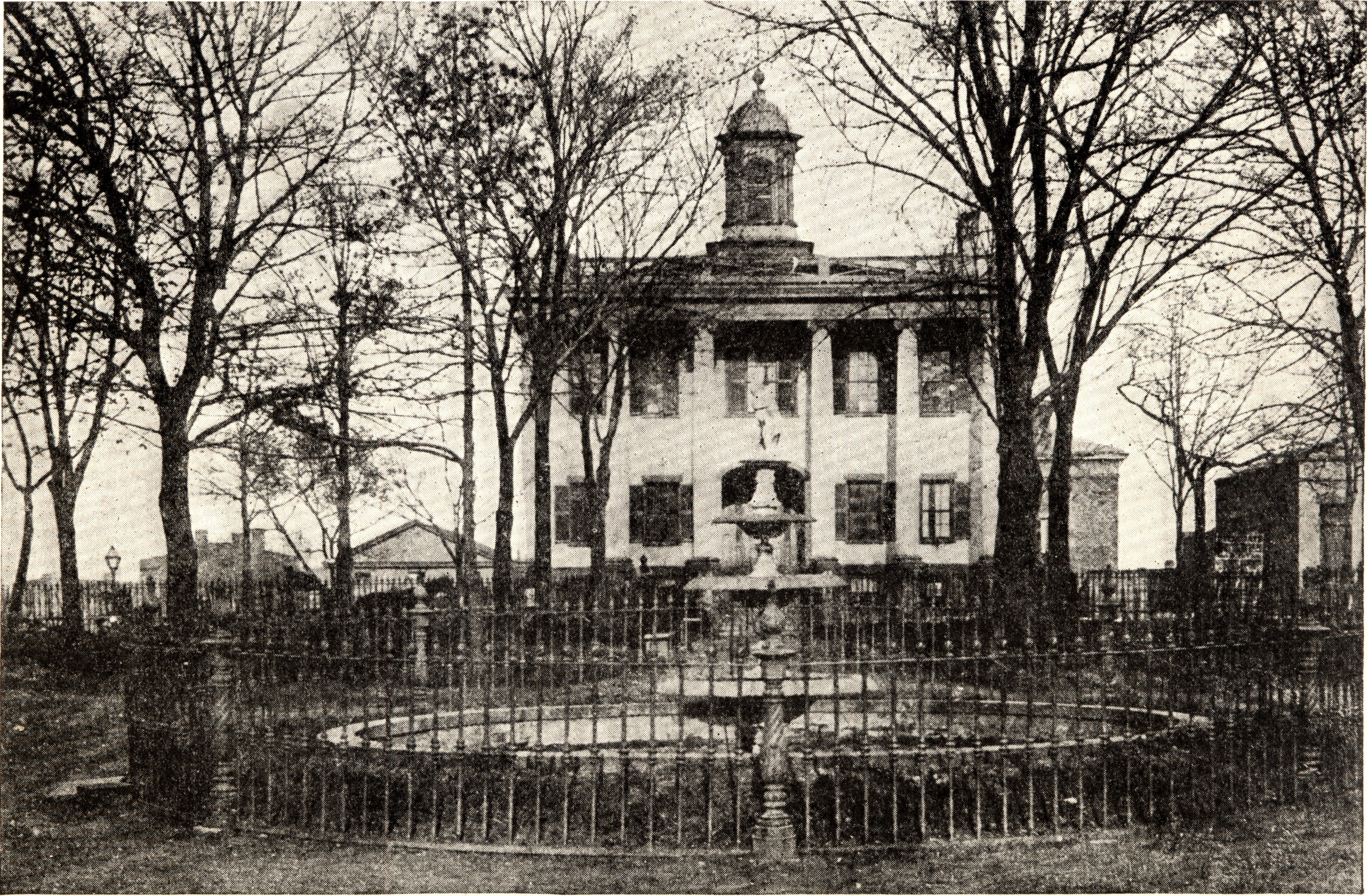 Photo from the Buffalo Express's 1916 booklet "Views of Old-Time Buffalo". Page 28, bottom. Caption: "Court house, built 1816; taken down 1876. Site of the Buffalo Public Library."